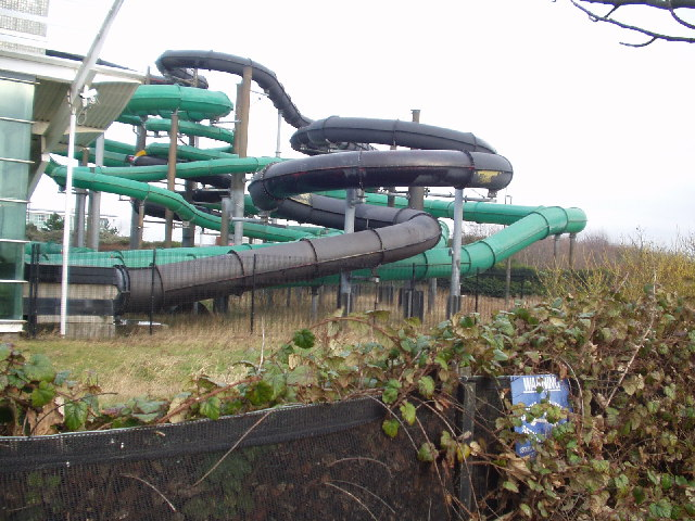 Wet 'n' Wild, Leisure Pool, North Shields. Leisure Pool close to the Royal Quays, North Shields. The kids loved this pool - there are 8 flumes!